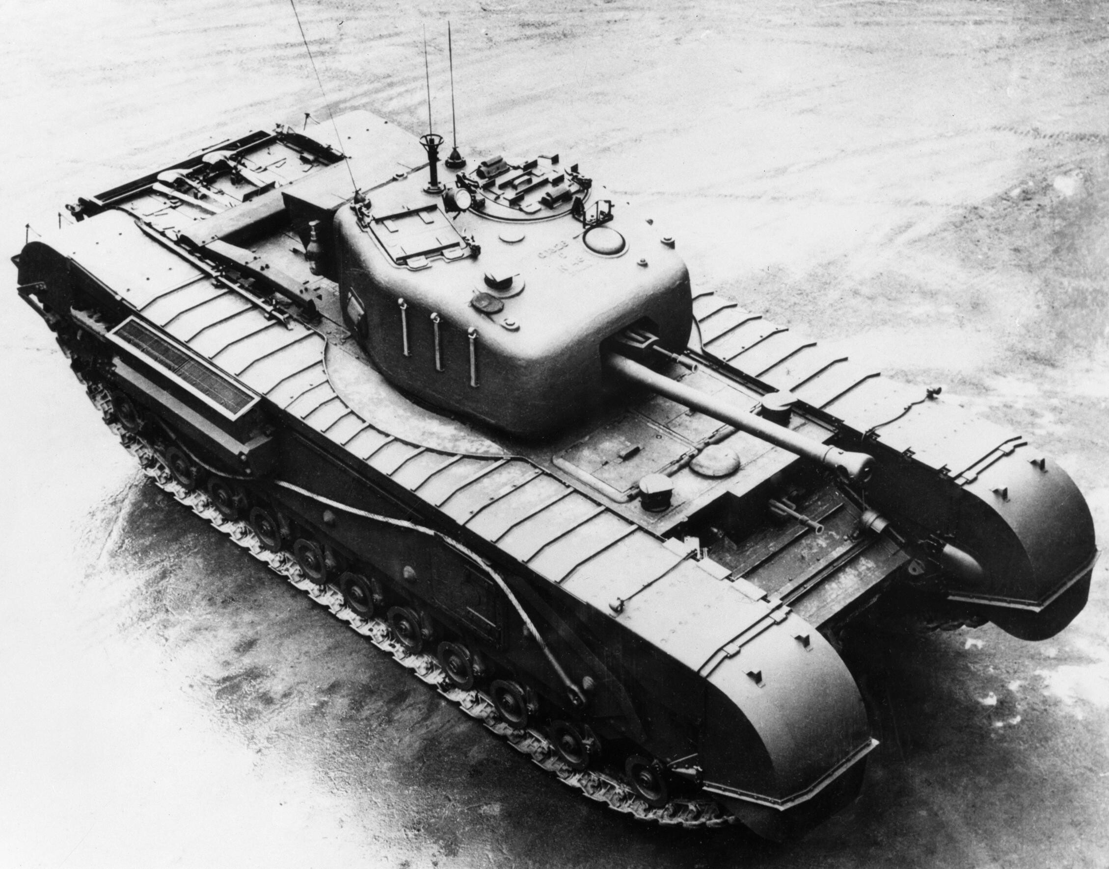 British Churchill Mk VI tank Infantry tank Mk IV Churchill VI